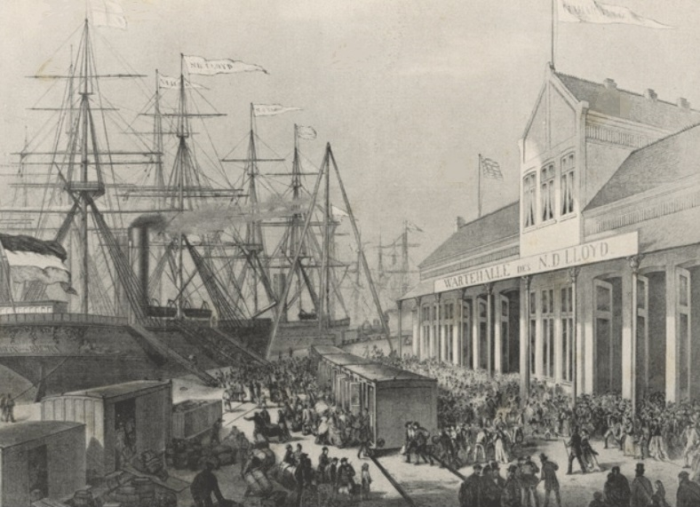 Dispatch hall of the North German Lloyd in Bremerhaven in 1870.